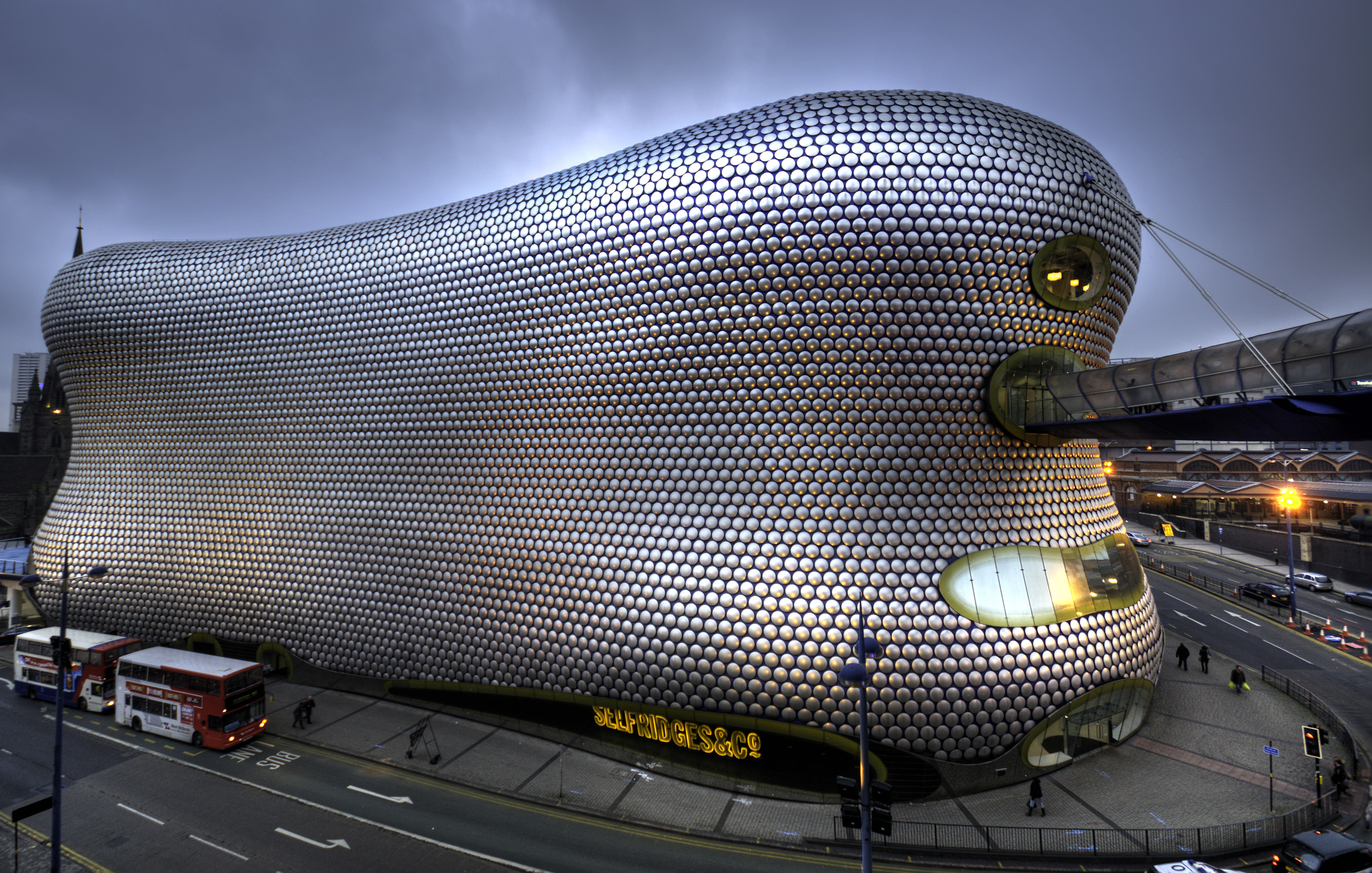 Selfridges Building, Birmingham (2012)